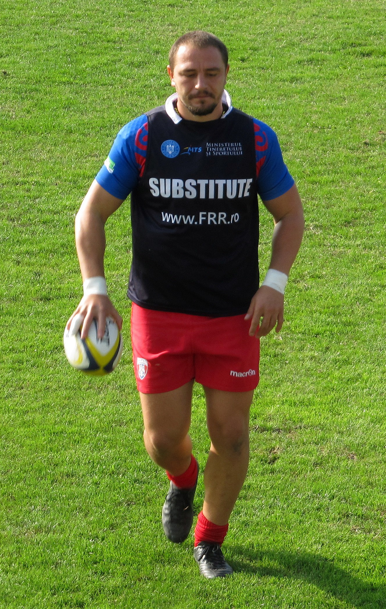 Romanian rugby union football player Florin Ioniță, player of CSA Steaua București rugby club seen training during the half-time of a match against CSM Baia Mare in Round 9 of Romanian Rugby Superliga 2019–20 season in October 2019